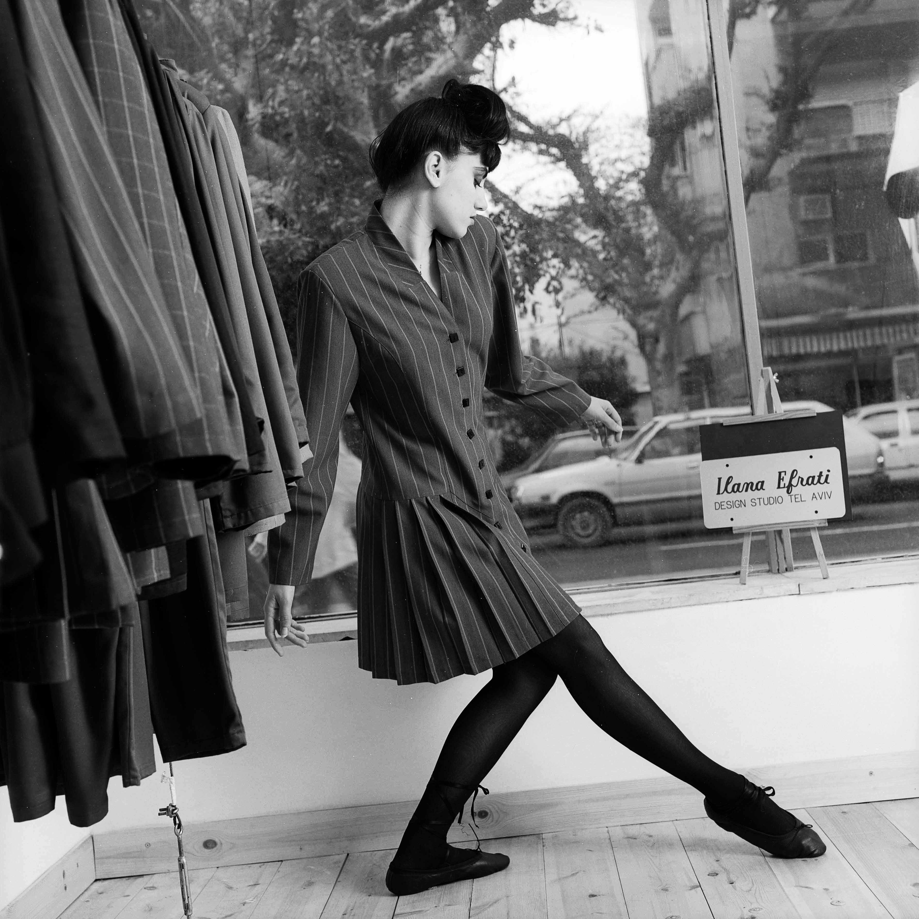 Photographed in Ilana Efrati's atelier by Miri Davidovitz, model: Ronit Elkabetz